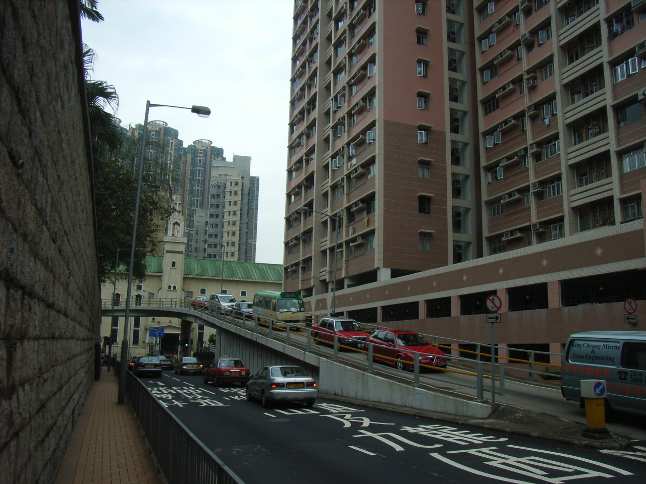 HK Bonham Road, Mid-level Photograph taken by MCLB from Hong Kong